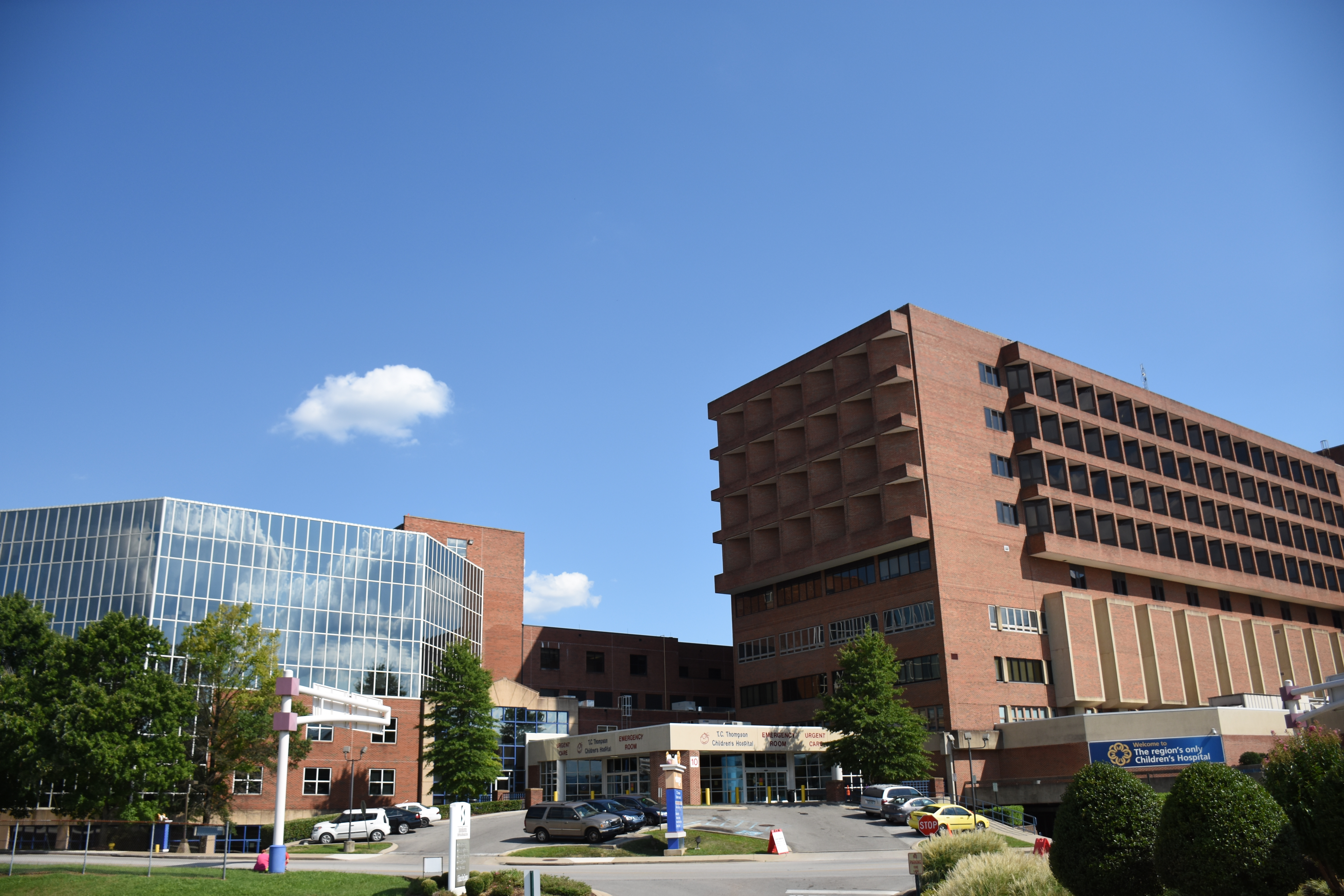 Blackford Street view of T.C. Thompson campus (main campus) of Children's Hospital at Erlanger